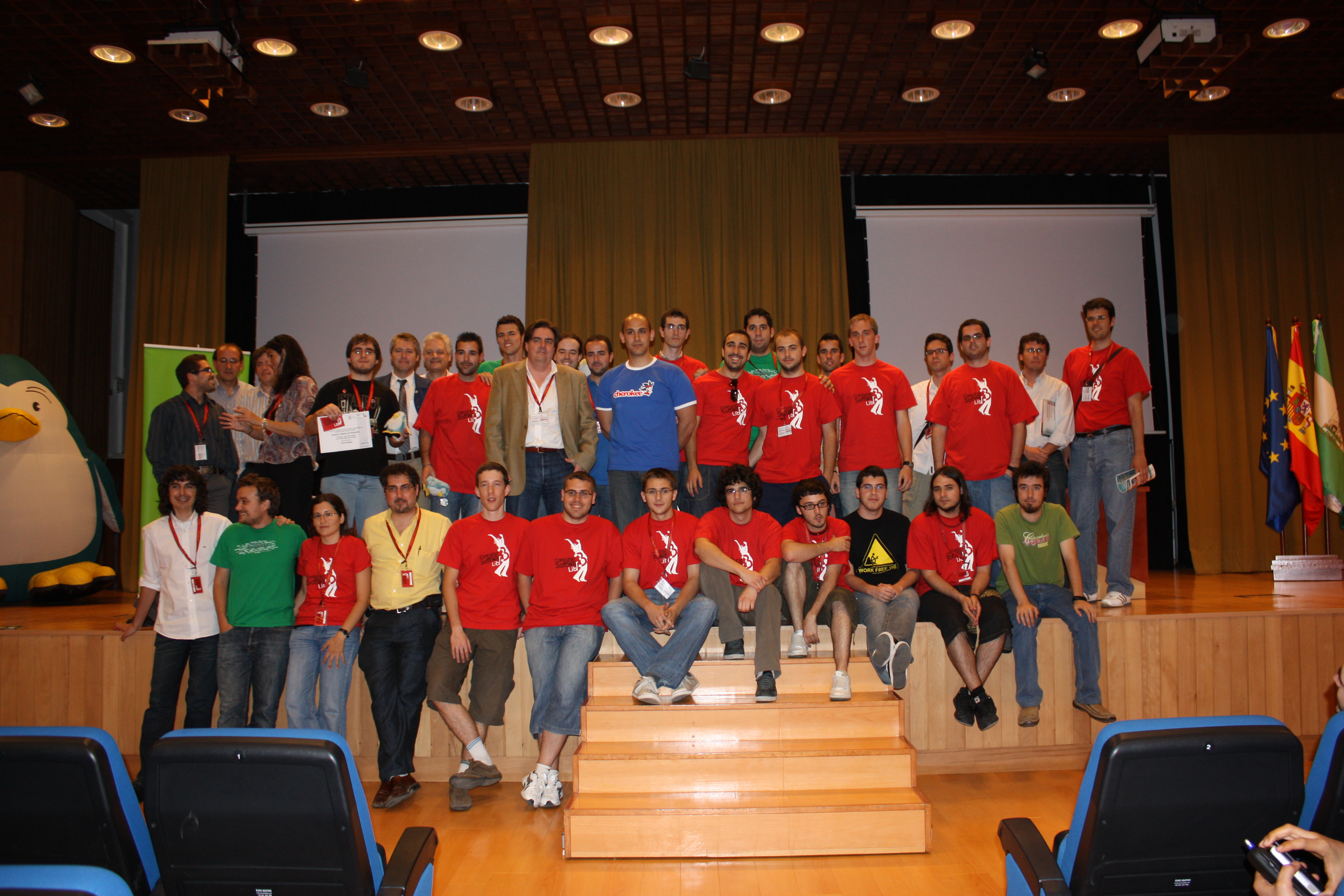 Fase final CUSL III.jpg